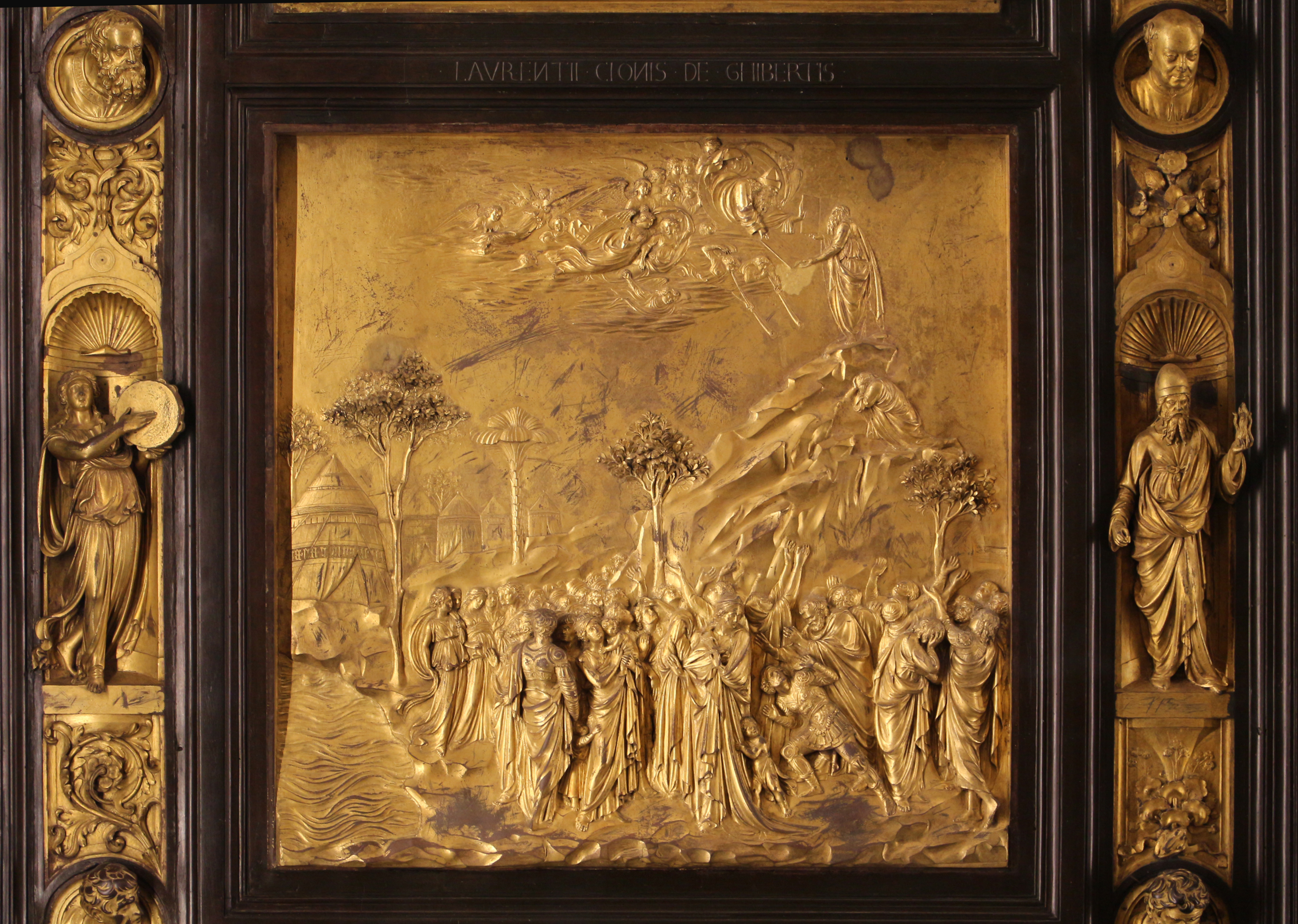 The Gates of Paradise - Reliefs